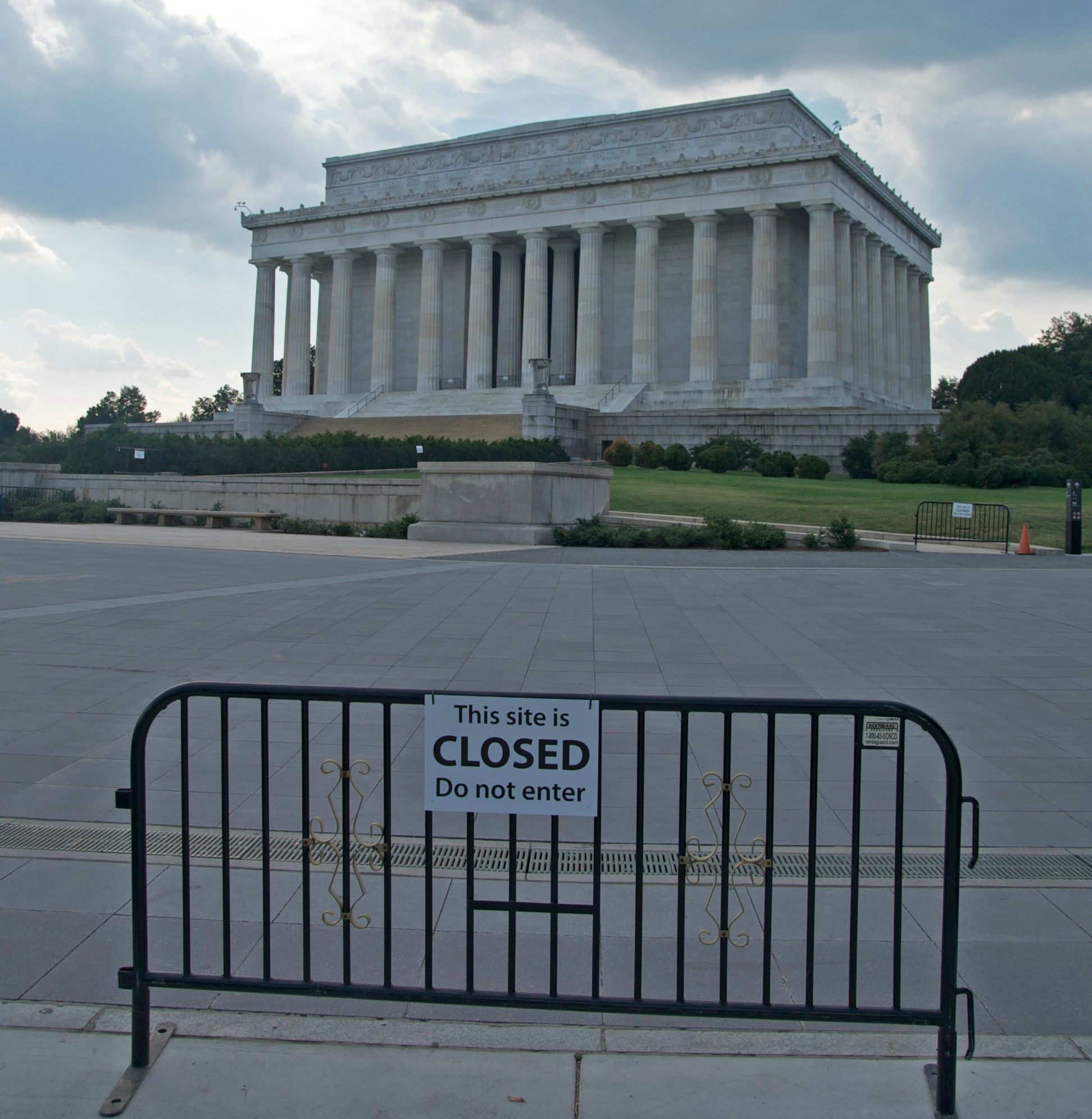 The Lincoln Memorial closed during the United States federal government shutdown of 2013.